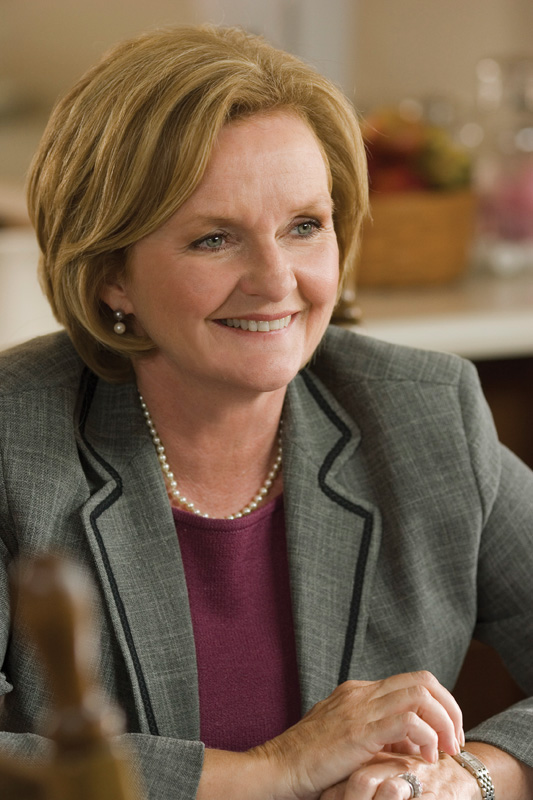 Claire McCaskill, member of the United States Senate from Missouri since 2007.